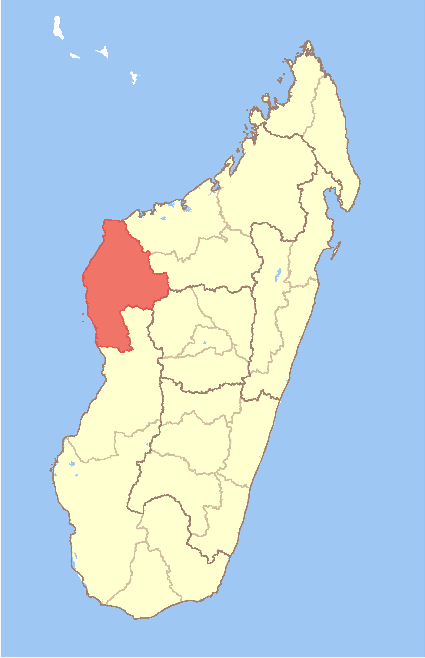 Map of Madagascar with Melaky Region highlighted